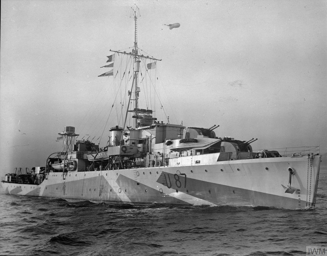 Photograph of British Black Swan class sloop HMS Kite (U87).